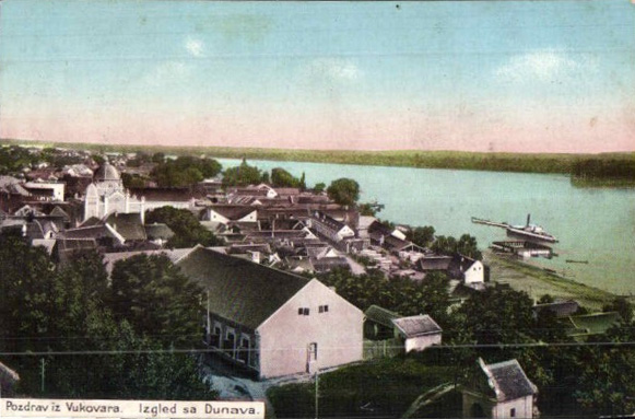 View of Vukovar and the Danube: This postcard (number 626) was written on 16 July 1912. It was postmarked on 17 July 1912.